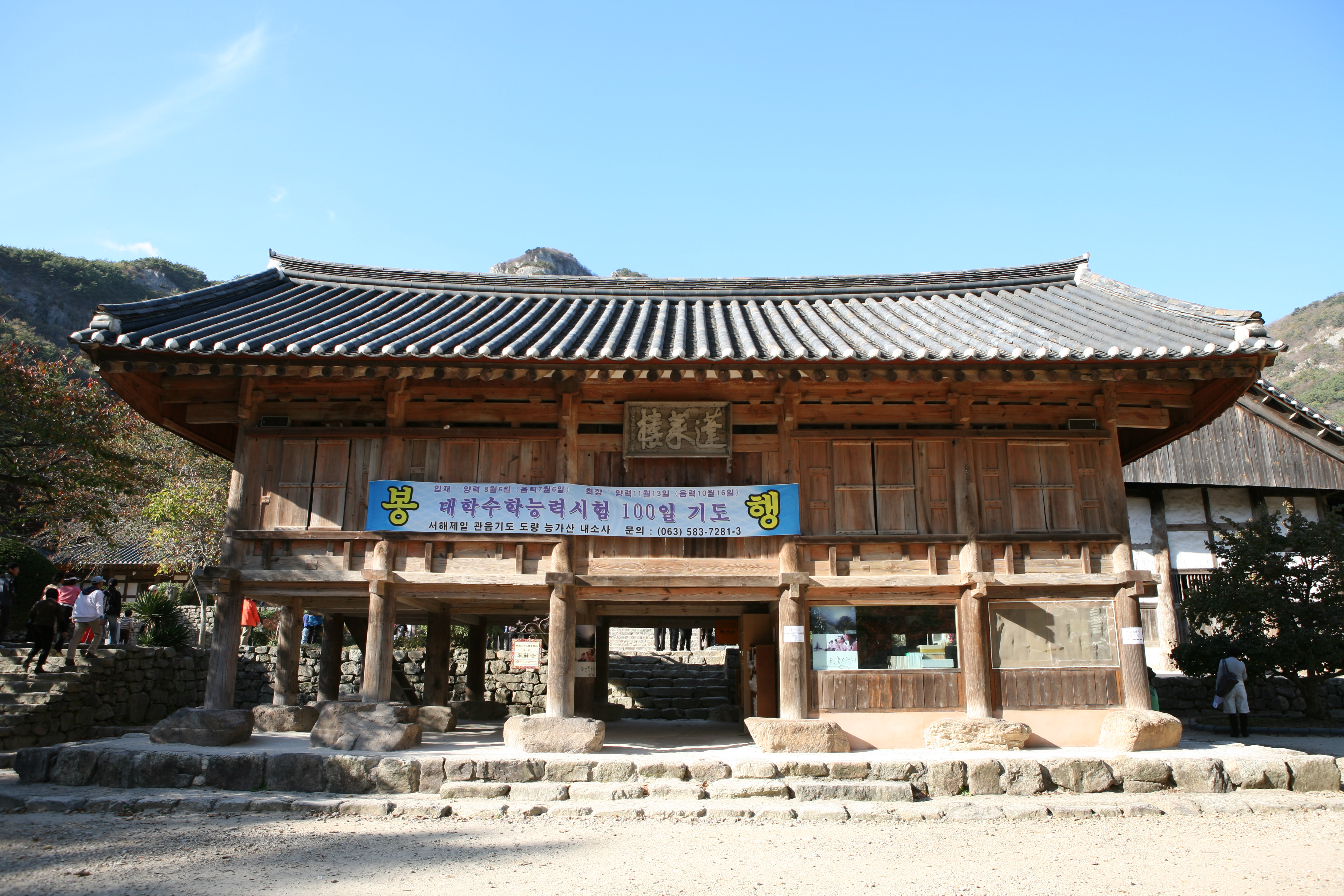 Bongnaeru at Naesosa Temple, Buan County, North Jeolla Province, South Korea.